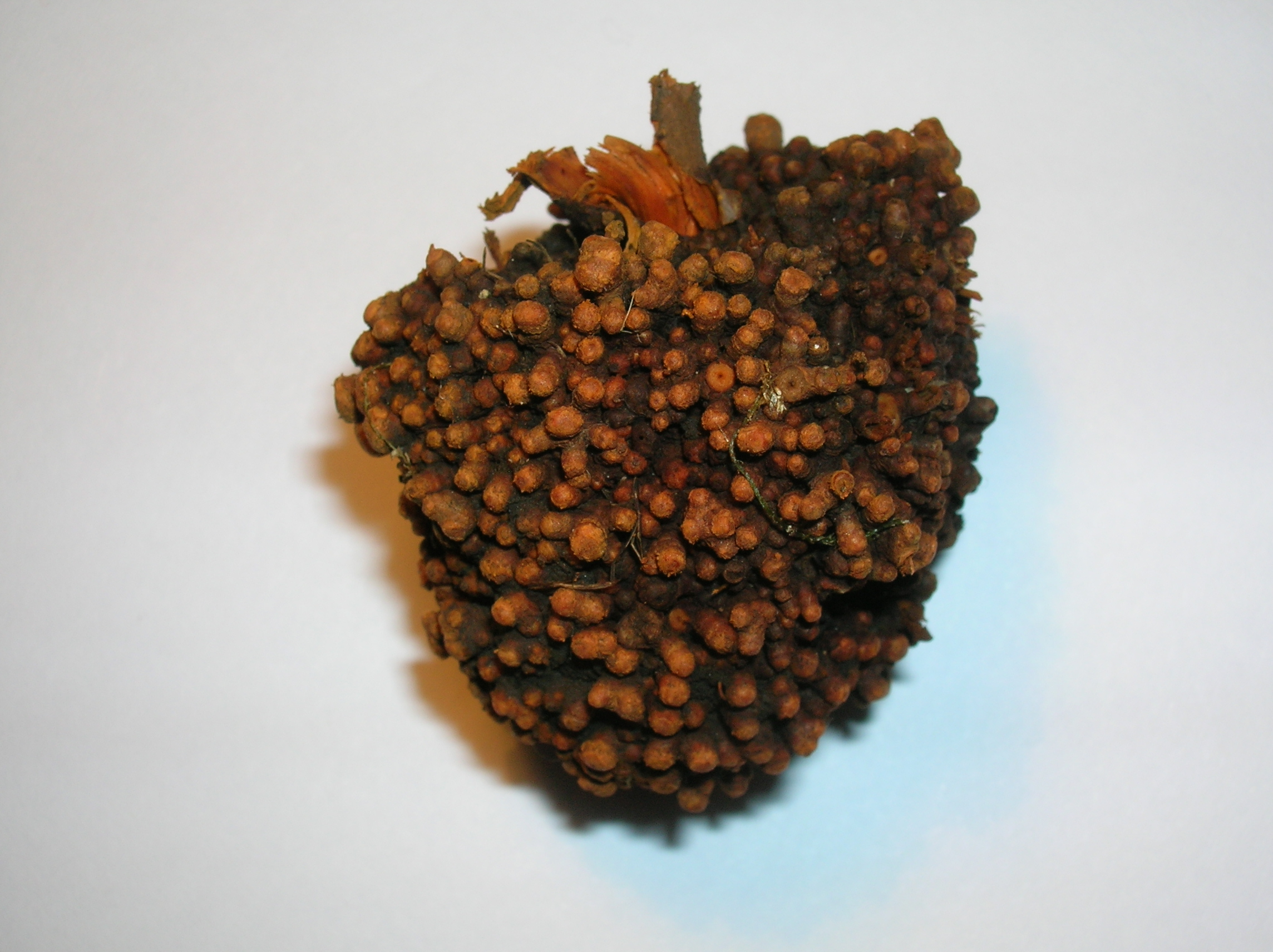 A whole Alder root nodule gall.